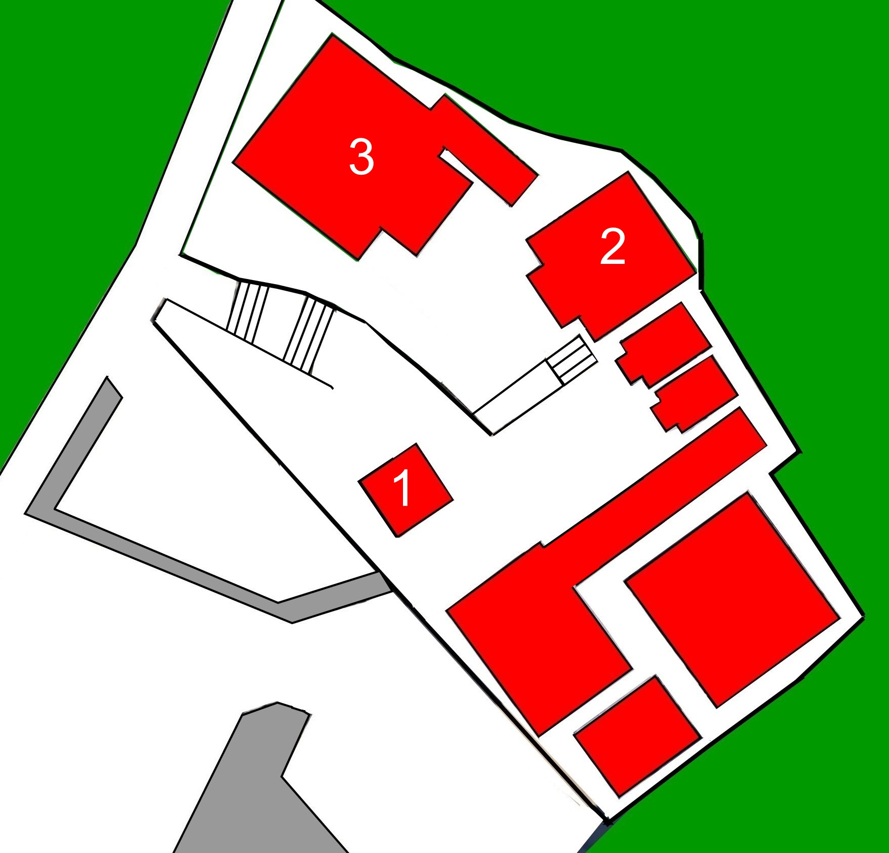 Layout of Eifuku-ji (Imabari), Prfecture Ehime, Japan